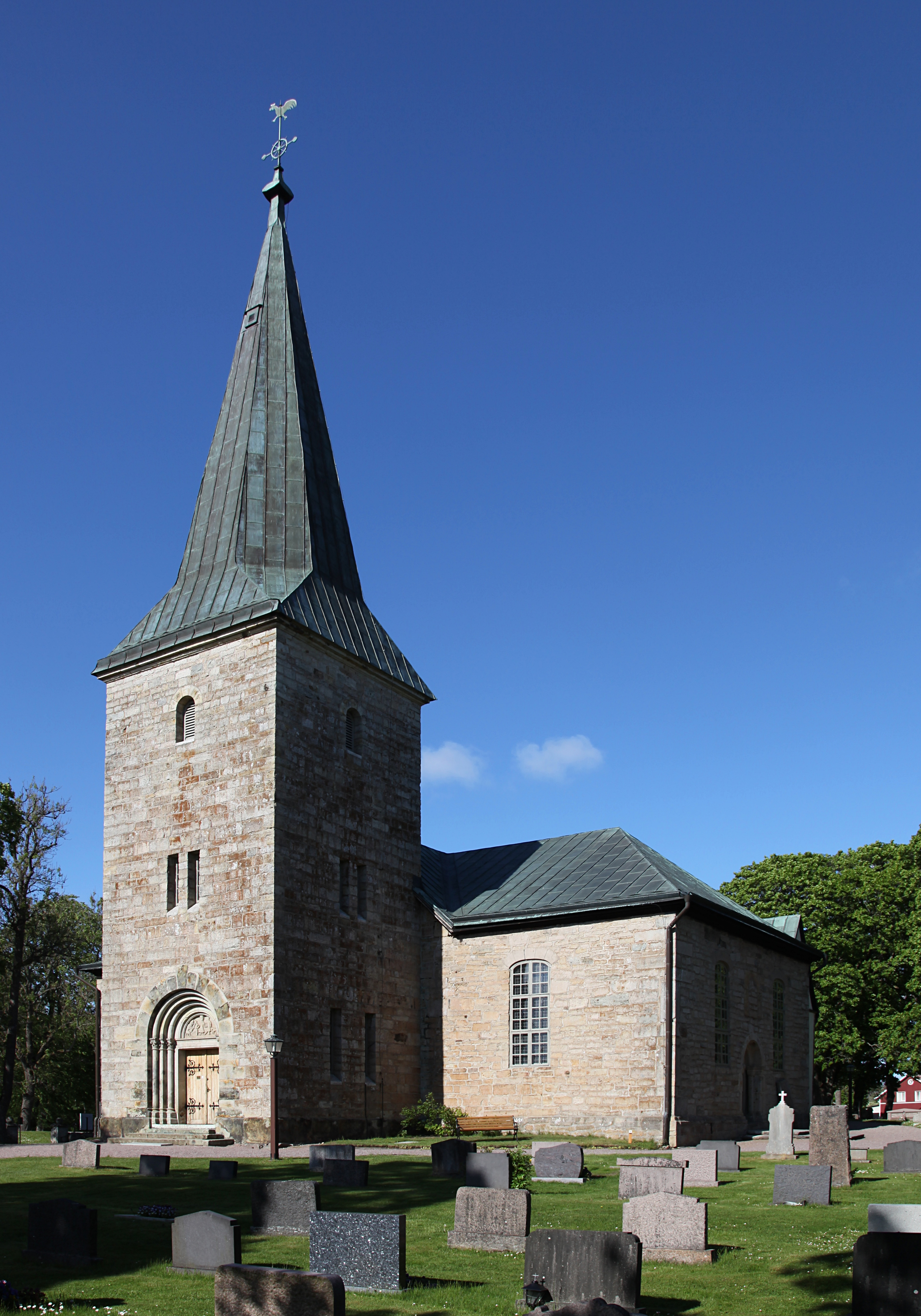 Forshems kyrka. A church near Lidköping - OpenStreetMap(Info)